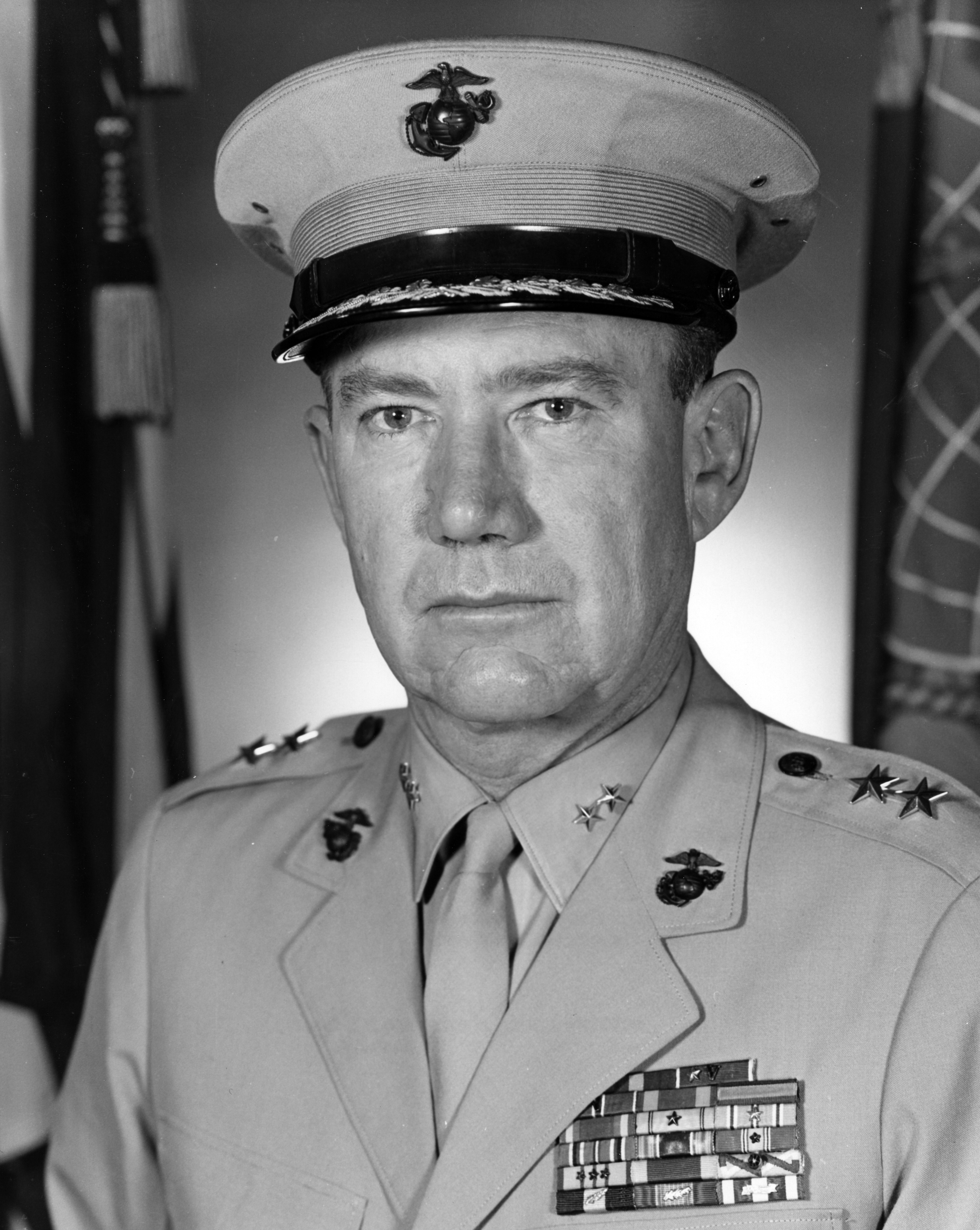 Clifford Barnes Drake (November 7, 1918 - October 25, 1994) was a highly decorated officer of the United States Marine Corps with the rank of Major General. He served as artillery officer during World War II and later took part in Vietnam War as Deputy commander of XXIV Corps.